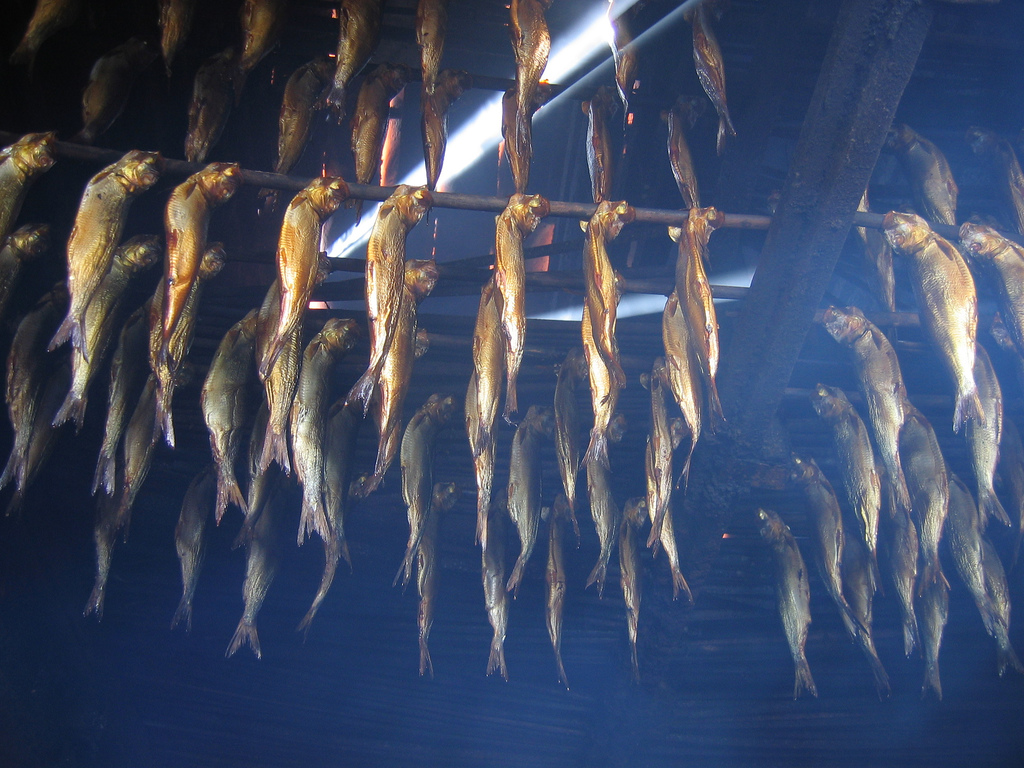 Smoking of fish, Netherlands. This is smoked herring or in